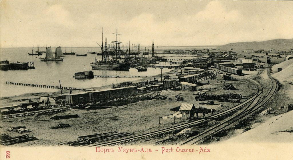 Postcard: Port Uzun-Ada at the Caspian Sea